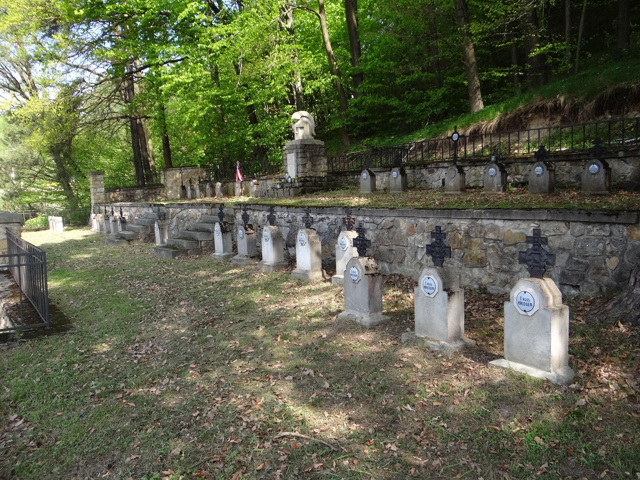 World War I Cemetery nr 150 in Chojnik